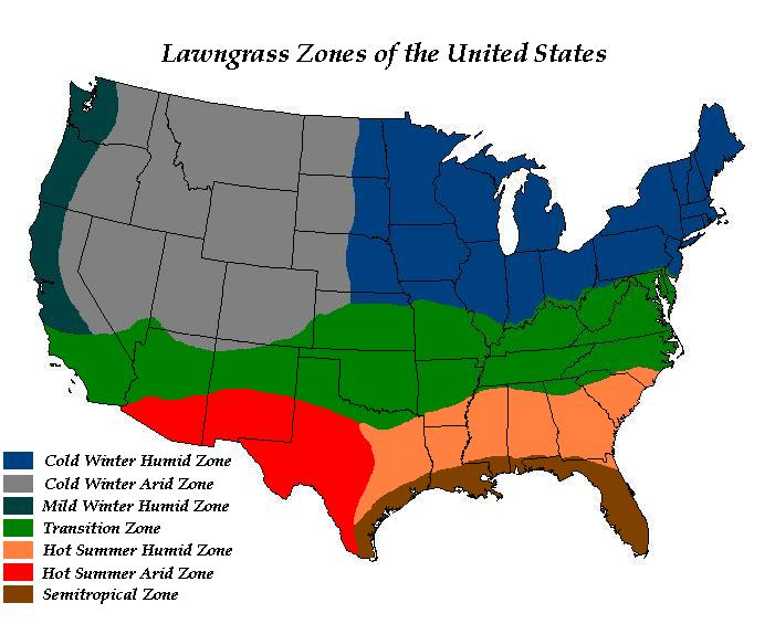 Lawngrass zones in the United States.